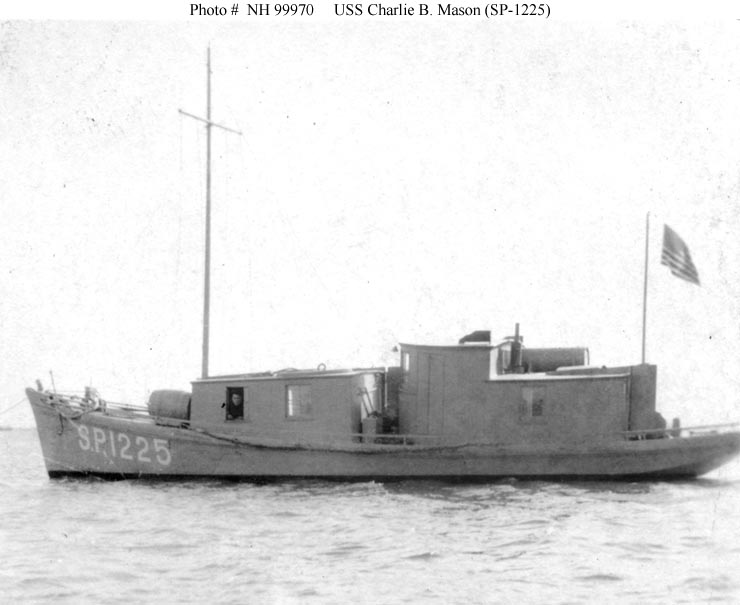 United States Navy patrol vessel , sometimes referred to as Charles B. Mason.